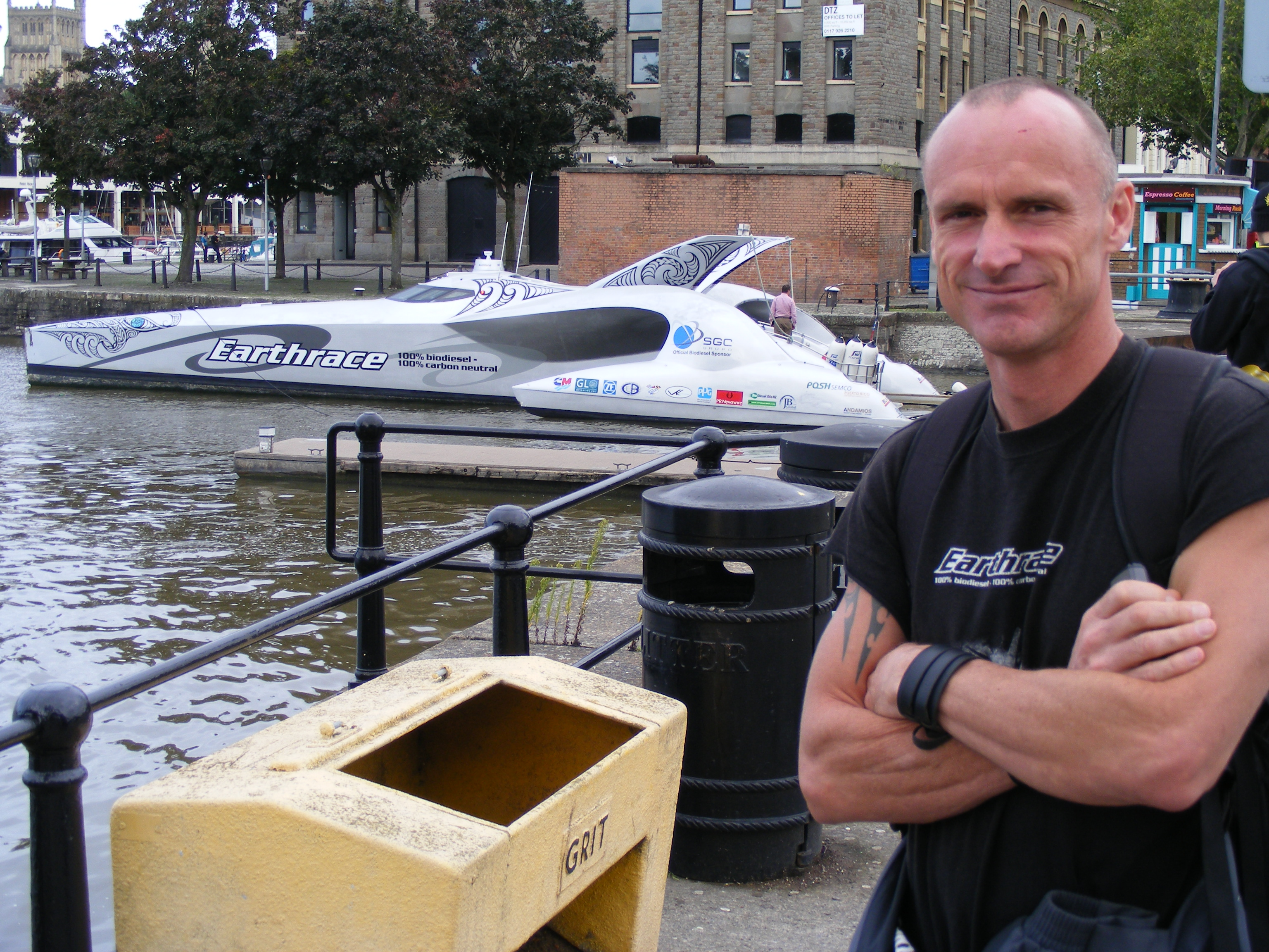 Pete Bethune. Press release photo from Earthrace Foundation.